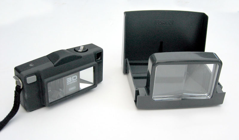 Loreo stereoscopic camera on standard 24x36 film and viewer